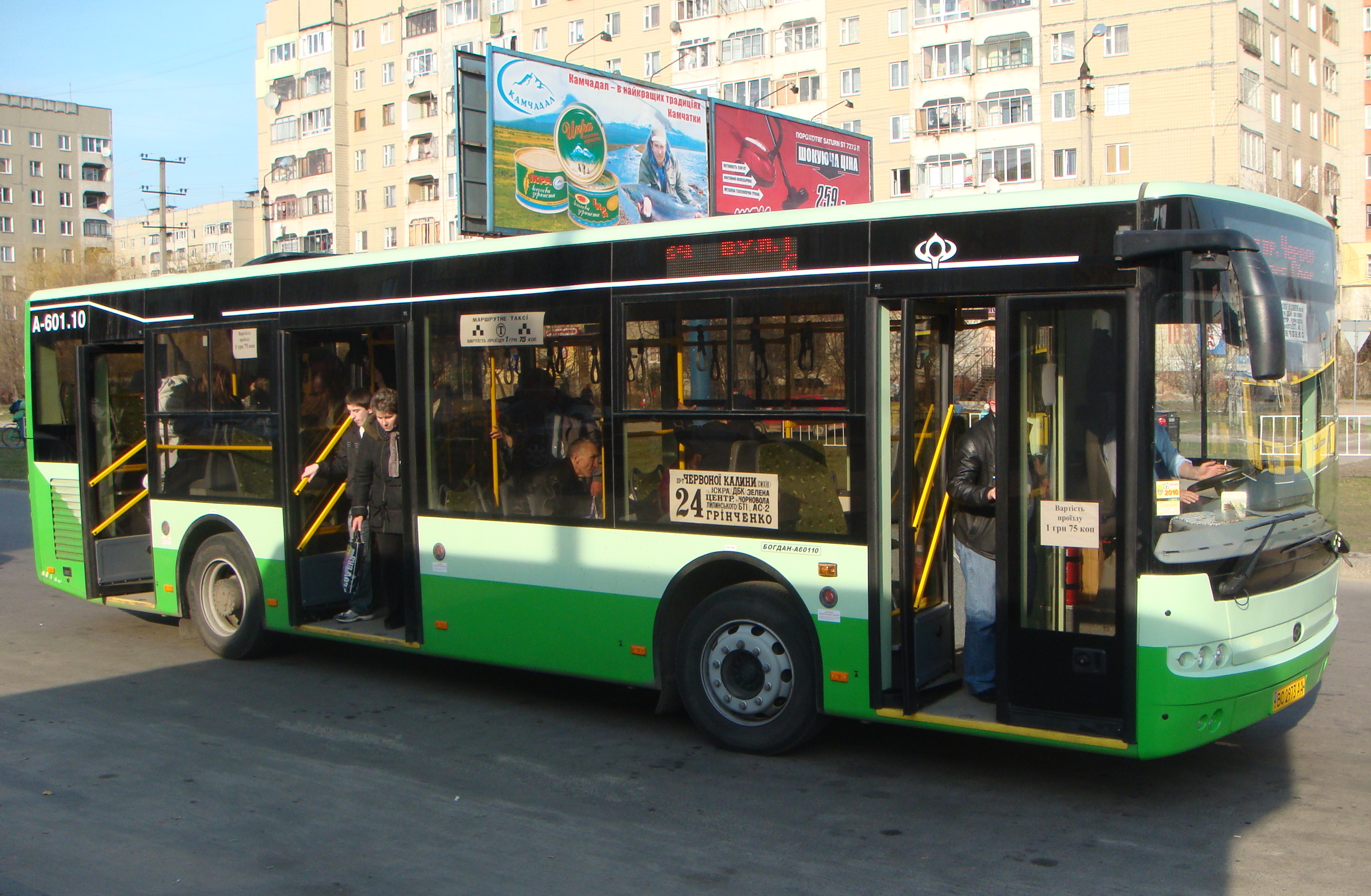 Bogdan A601.10